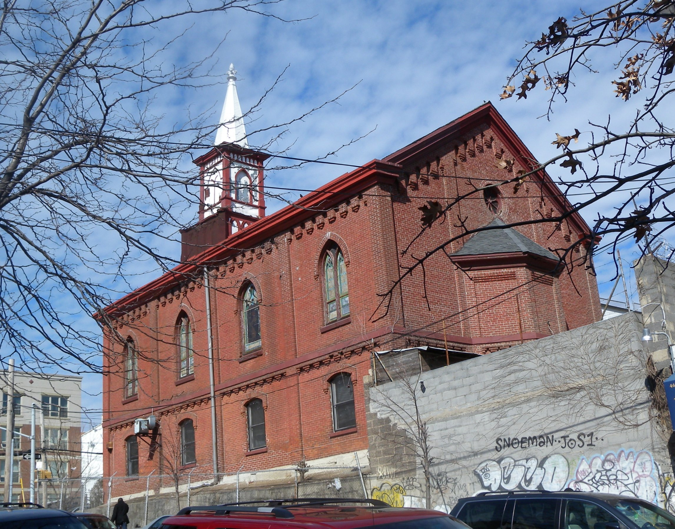 Looking north across 156th, towards Elton Avenue, at the Melrose Community Reformed Church on a sunny midday. Photographer's error confused it with a Catholic church a hundred yards west of here.